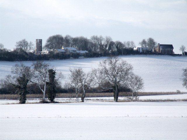 Kirkby Hill near Old Bolingbroke. Looking across to Kirkby Hill and the Windmill (disused) - 752635